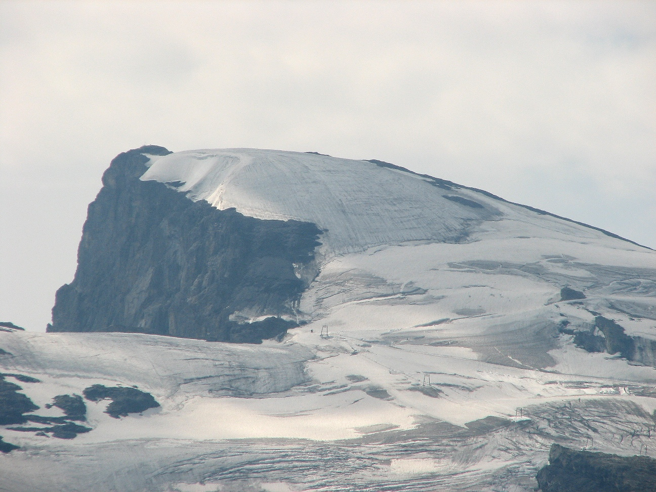 Titlis, the glacier in summer 2006